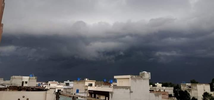 Thunderclouds approaching Faisalabad city